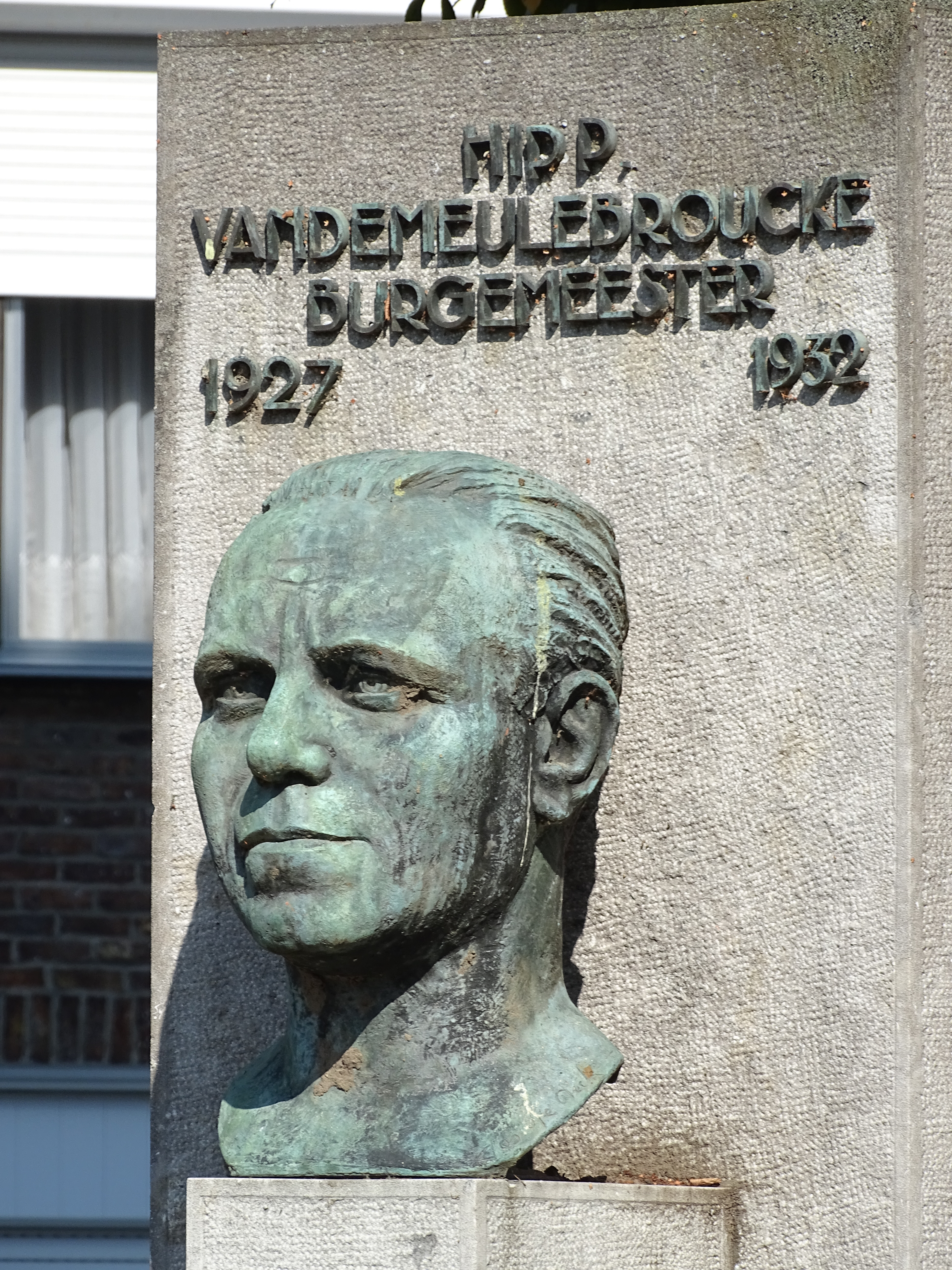 Bust of the socialist mayor Hippolyte Vandemeulebroecke of Sint-Gillis Dendermonde at Vandemeulebroeckeplein in the social housing estate Klein Parijs, Sint-Gillis-bij-Dendermonde in 1957. The statue, designed by Jos De Decker, was inaugurated on 12 July 1959.